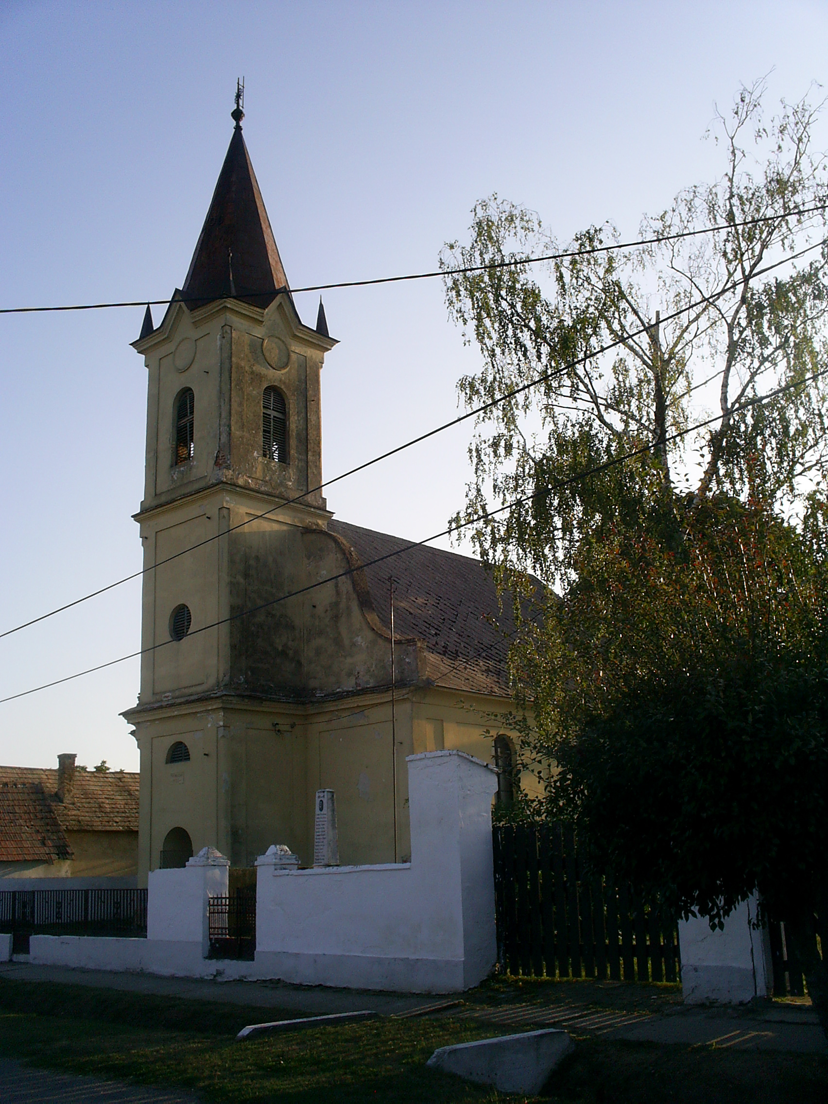 Reformed church of Merenye